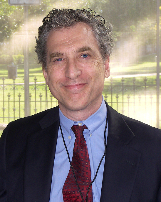 James Traub at the 2008 Texas Book Festival, Austin, Texas, United States.